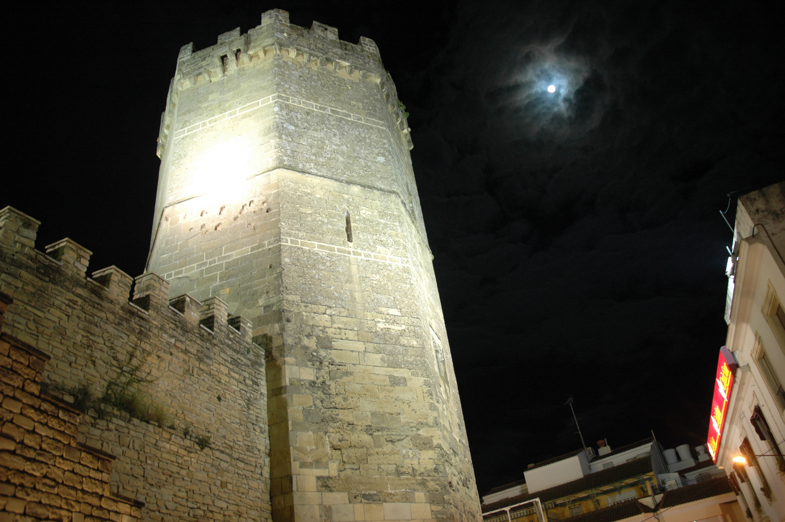 Torre Nueva (New Tower), the remains of the Castle of Porcuna